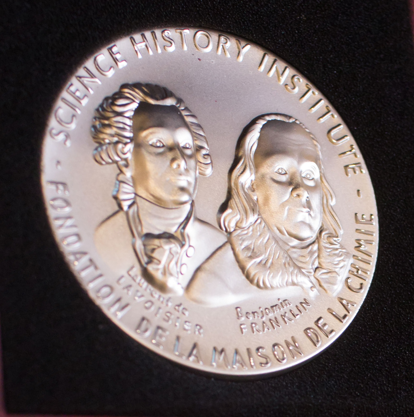 Photograph of the 2018 medal given with the Franklin-Lavoisier Prize, Science History Institute, Philadelphia, PA, USA. The Franklin-Lavoisier Prize is awarded alternately in the United States and France every two years to recognize the preservation of scientific or industrial heritage.